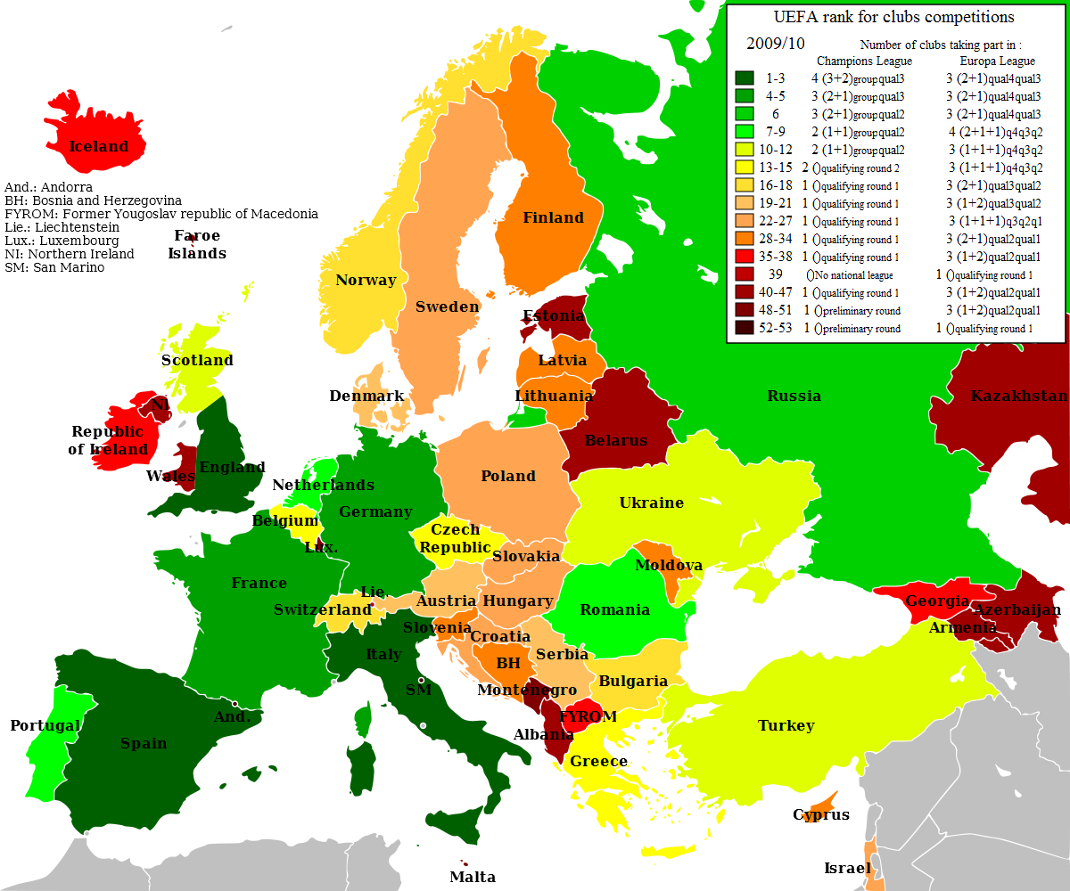 Map of UEFA members with ranking